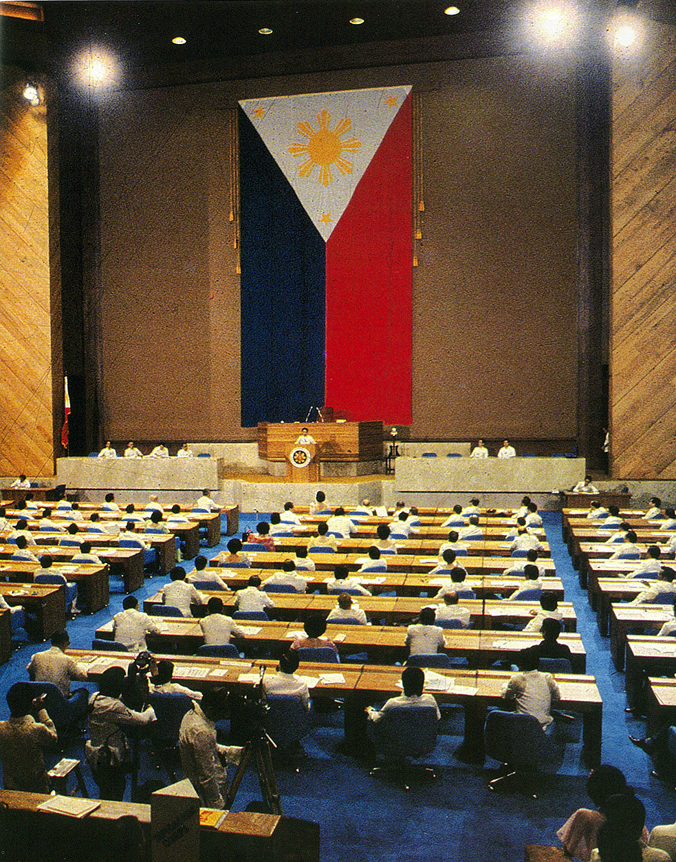 Philippine President Ferdinand E. Marcos, as both President and Prime Minister, delivering his 1978 SONA to the just-convened Interim Batasang Pambansa.